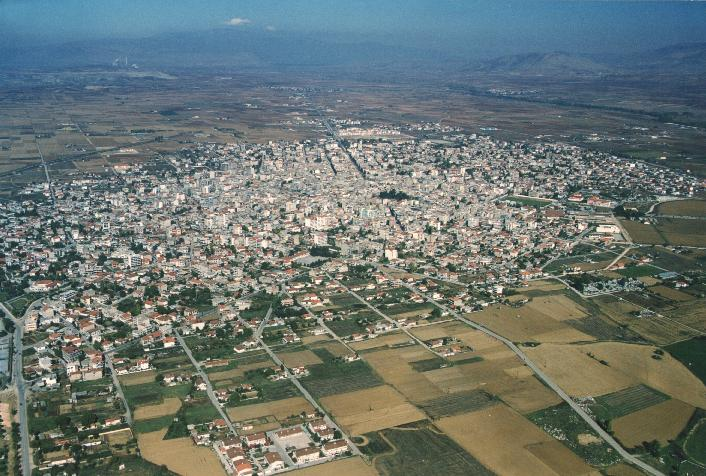 Aerial view on the city of Ptolemaida in Kozani prefecture of Greece.